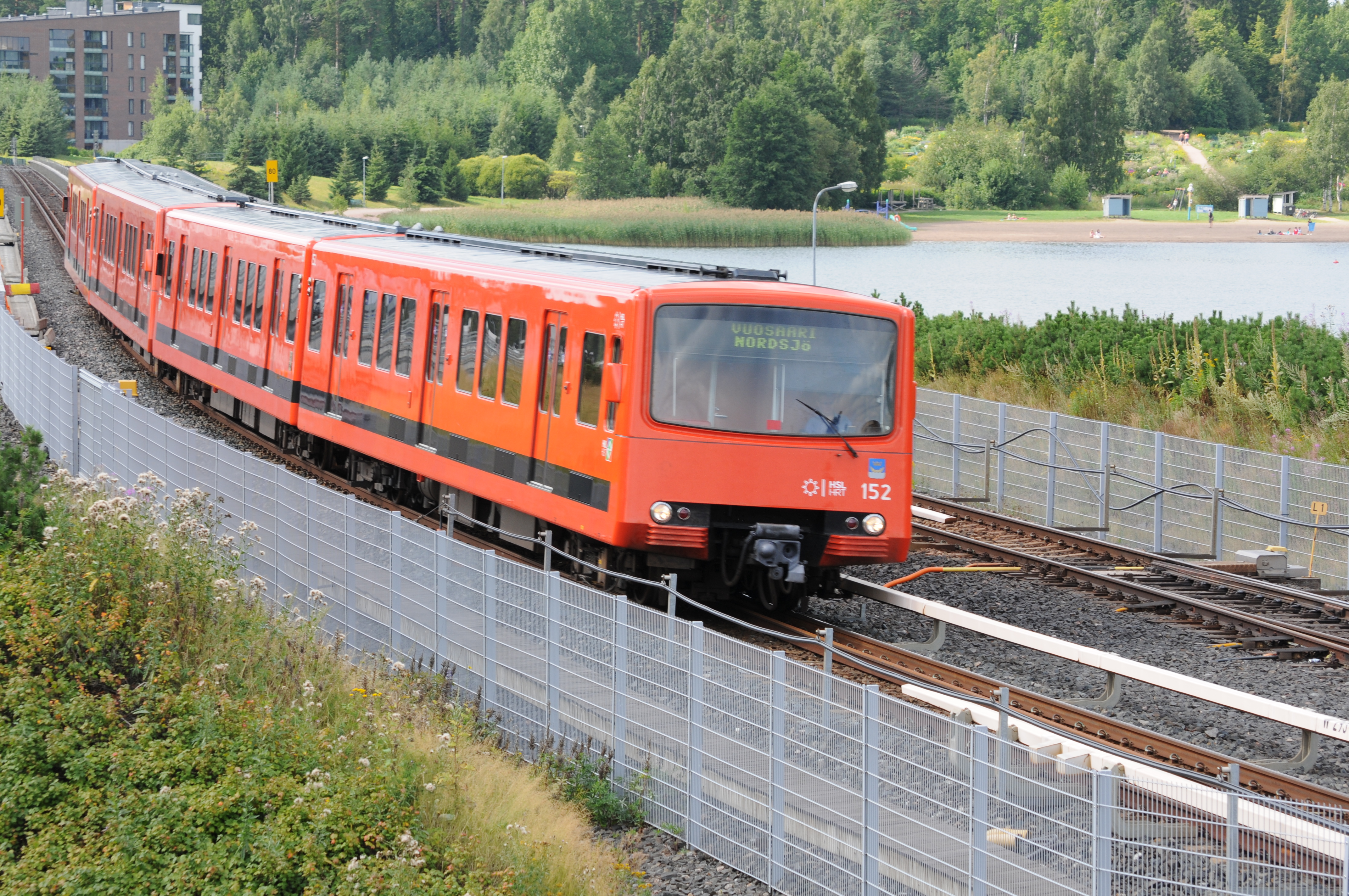 Bilderserie mit Dauerauslöser oder manuell - Grundmaterial für Kurse auf Wikiversity This file is used in a Wikiversity project or course. Please don't change it before you inform the author.